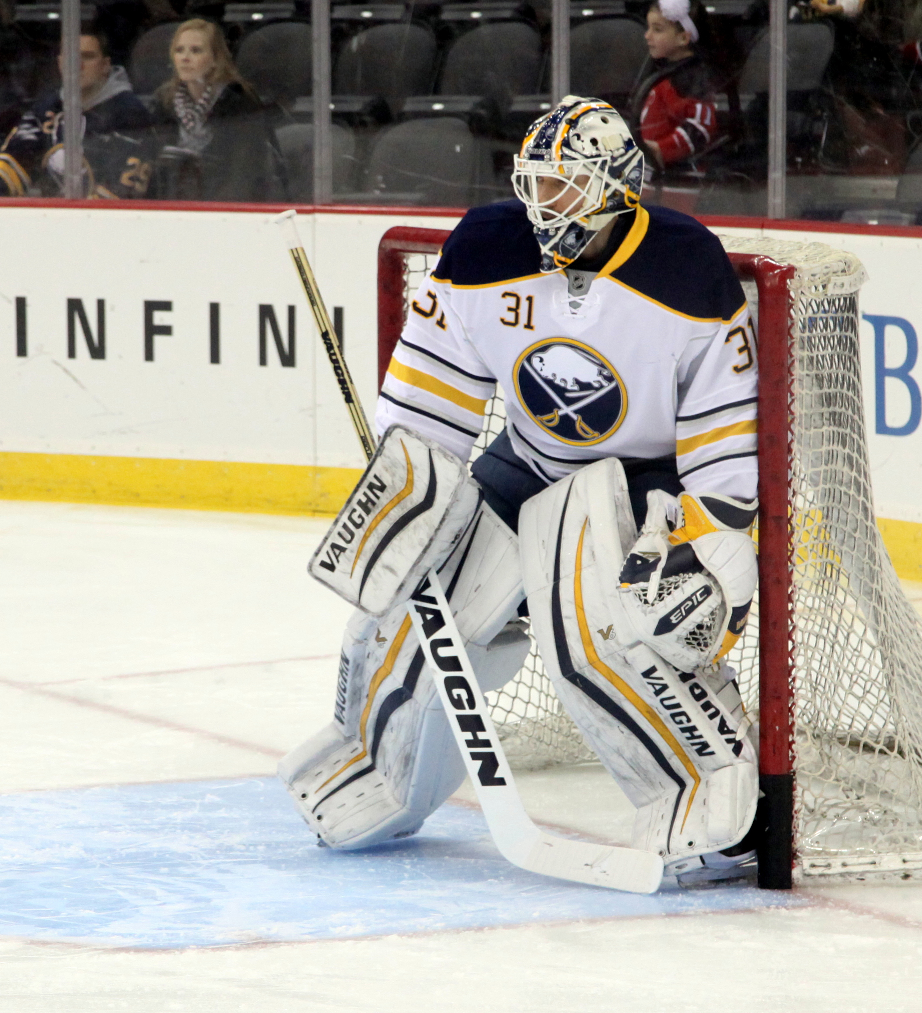 Johnson in April 2016.